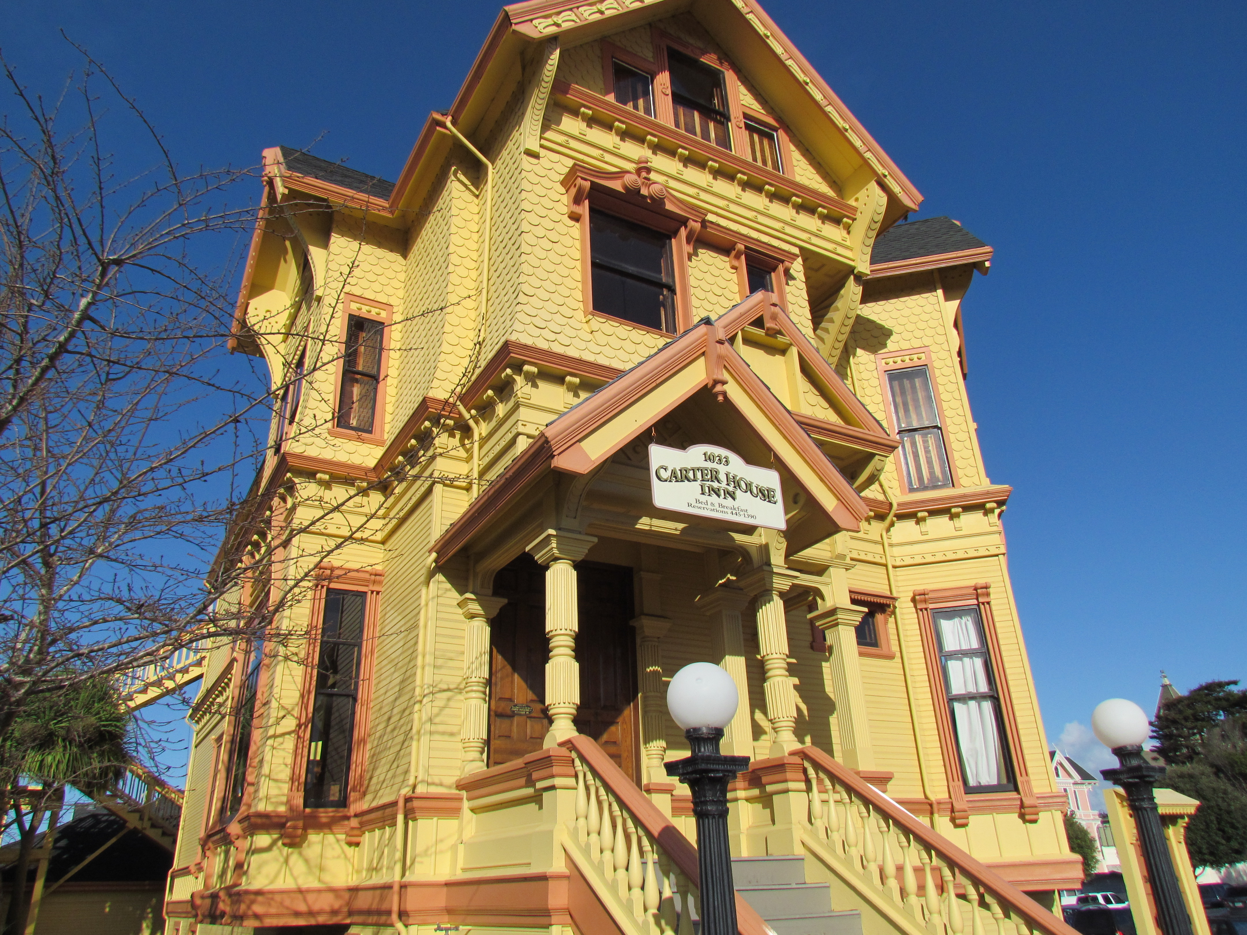 Carter House Inn, Eureka, California (this is not a period Victorian, rather a purpose built replica completed late in the twentieth century